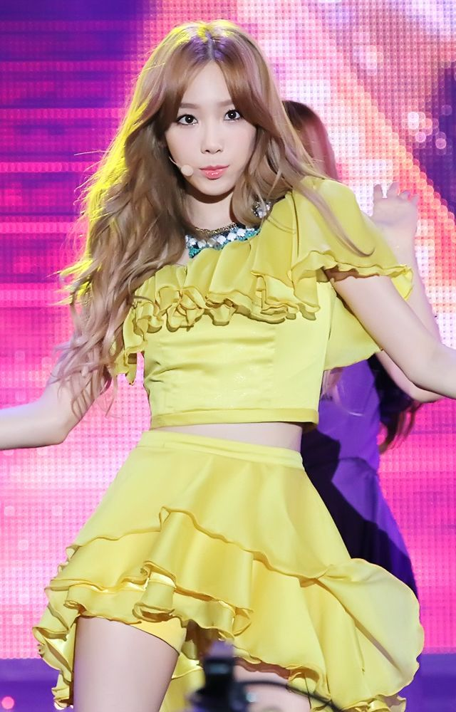 Taeyeon performing at K-pop Expo in Asia on September 21, 2014